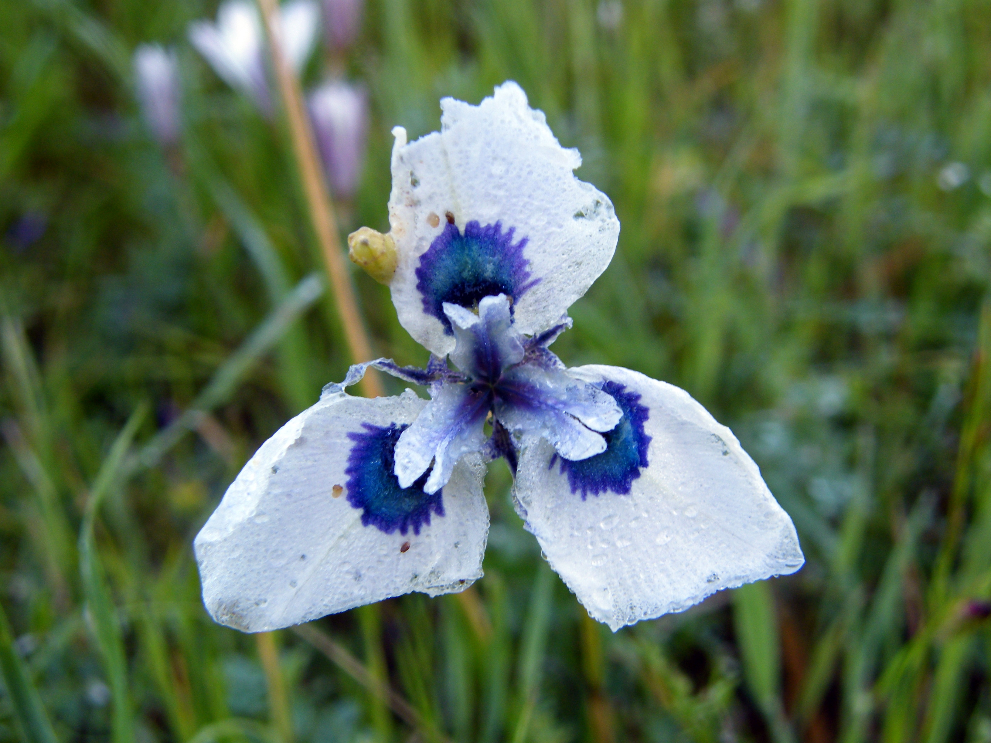 Peacock moraea (Moraea aristata)